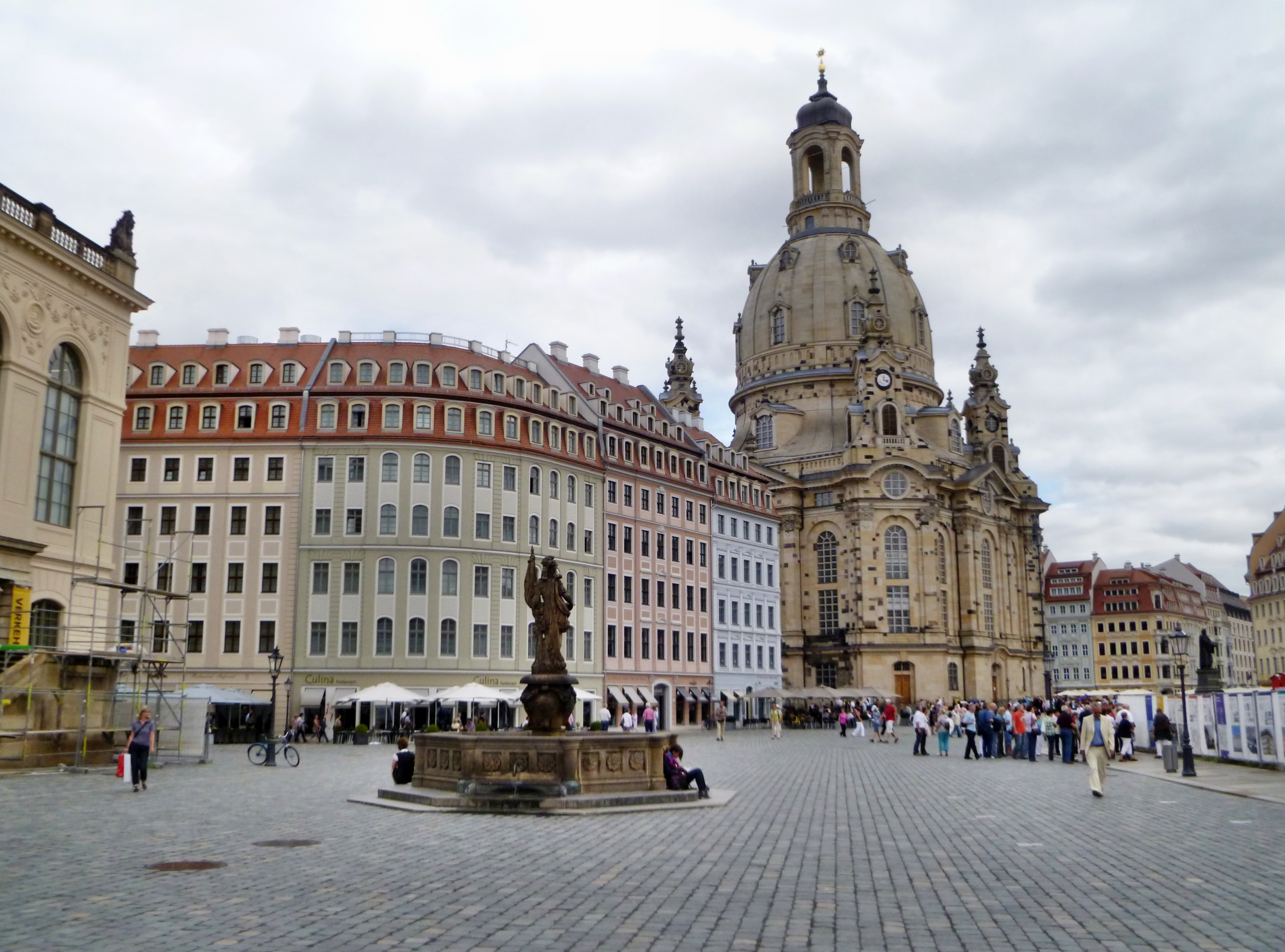 The Neumarkt square with the Friedensbrunnen and the Frauenkirche; Dresden, Germany